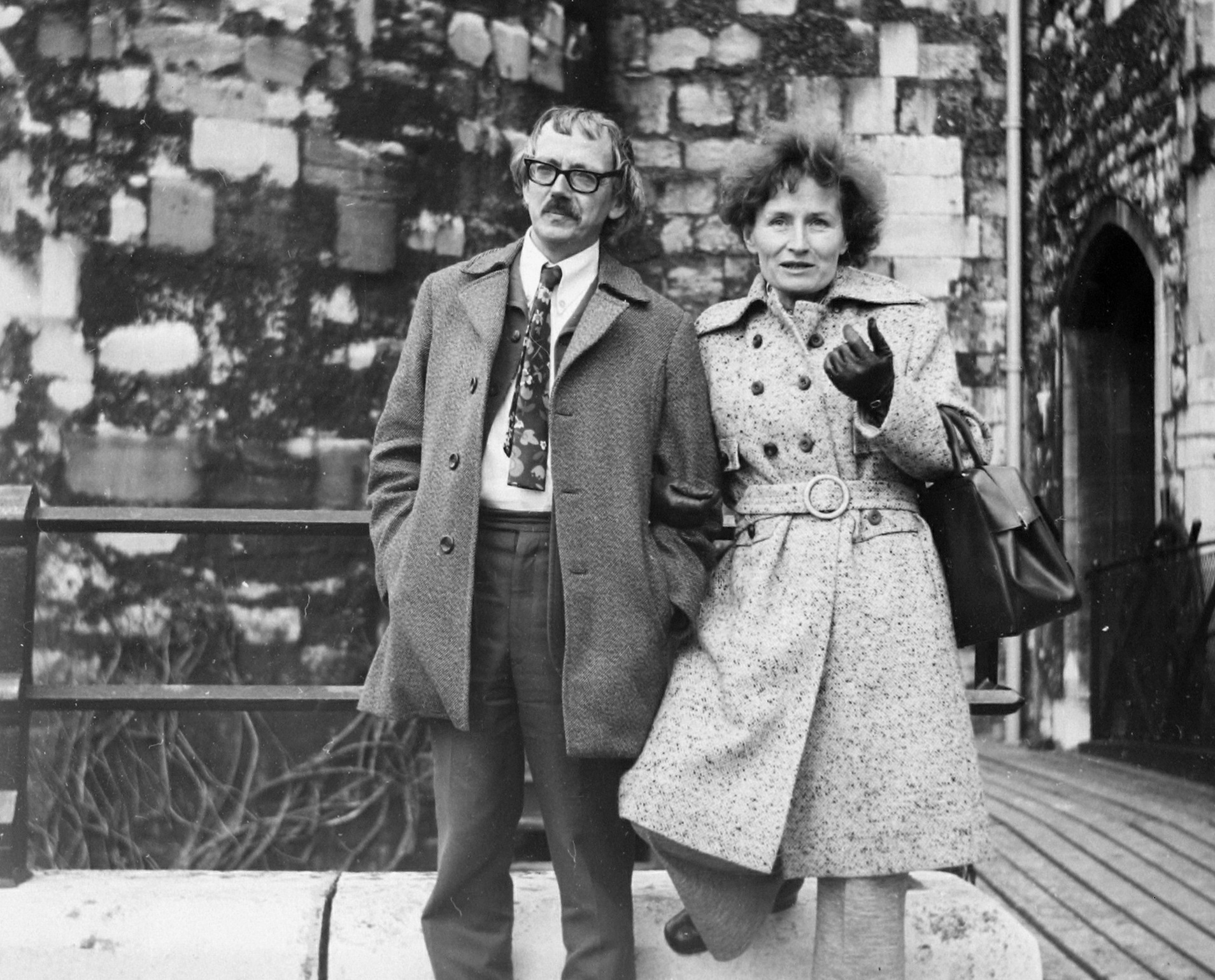 Hugh Lovegrove and Jindra Delongová, London 1970